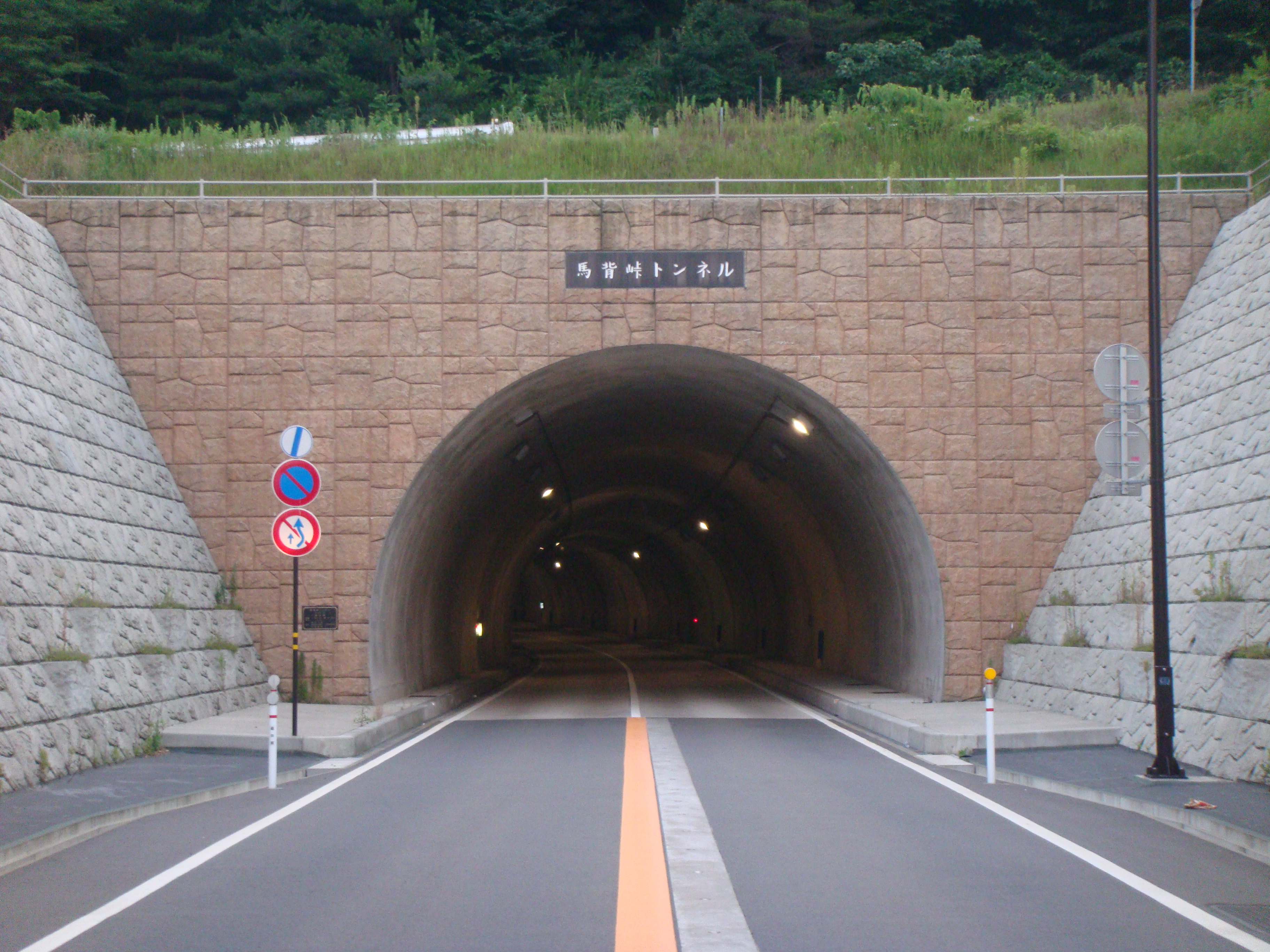 Fukui Prefectural Road Route 33 Majotouge Tunnel （“touge” means pass） Place - Noma,Tsuruga City,Fukui Prefecture,Japan Date - July 16, 2011 Format - JPEG, 3648x2736pixel, 24bit colors Photographer - NALA Wiki (talk)